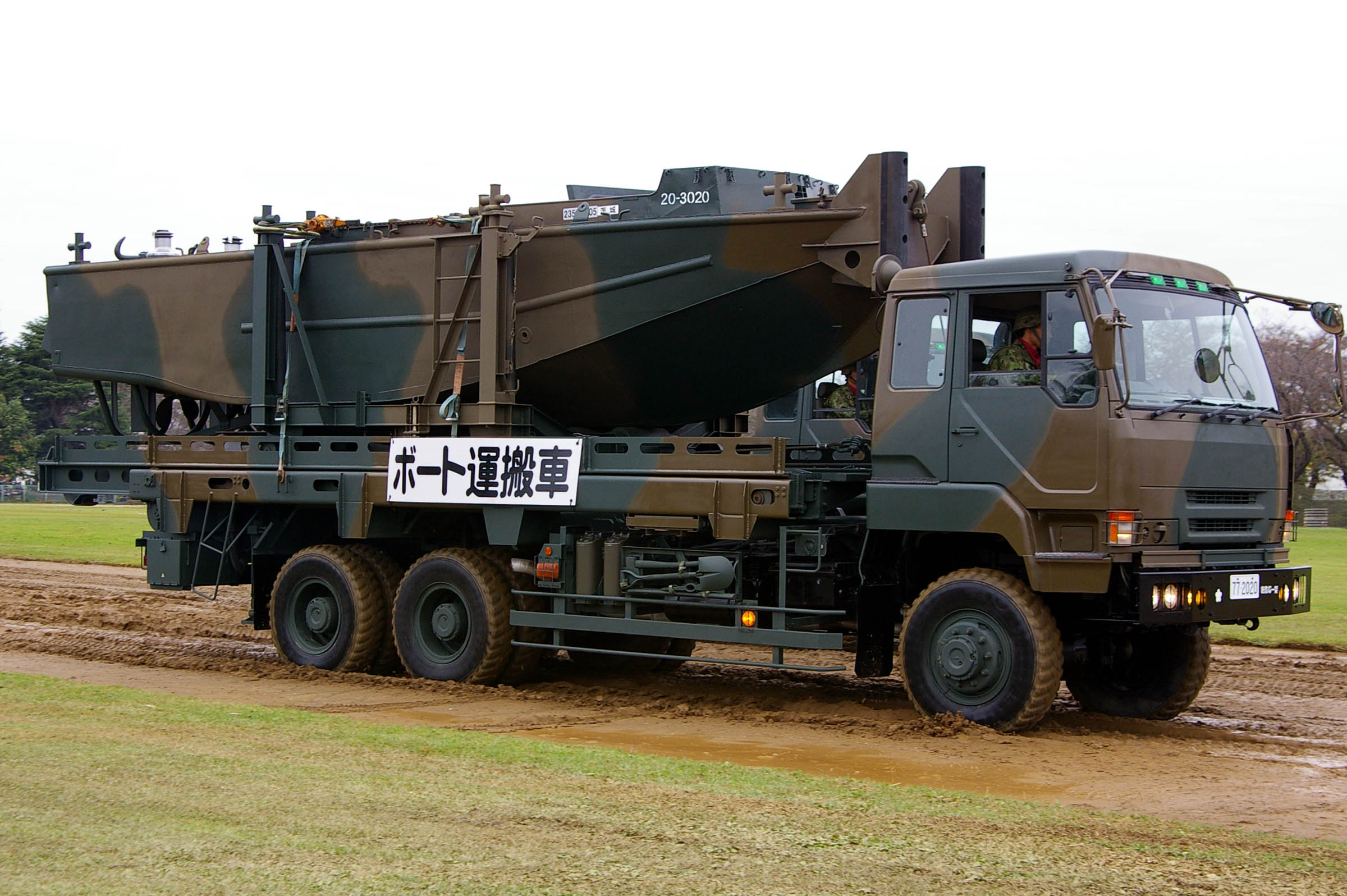 JGSDF Type92_Pontoon_bridge(boat).Taken by Los688,at Camp Katsuta,25-Oct-2008.PD-self